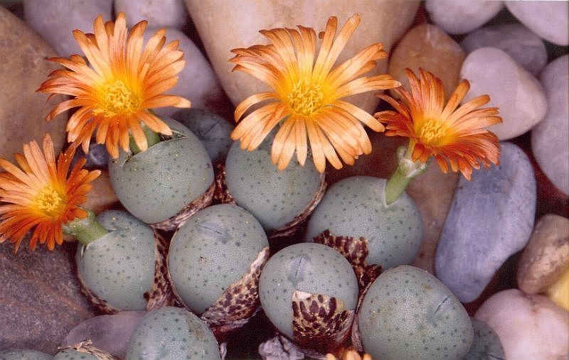 Personnal collection